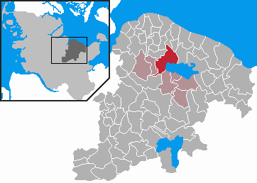 This map shows the area of the Gemeinde (municipality) Fargau-Pratjau in the Kreis (district) Plön, Schleswig-Holstein, Germany.